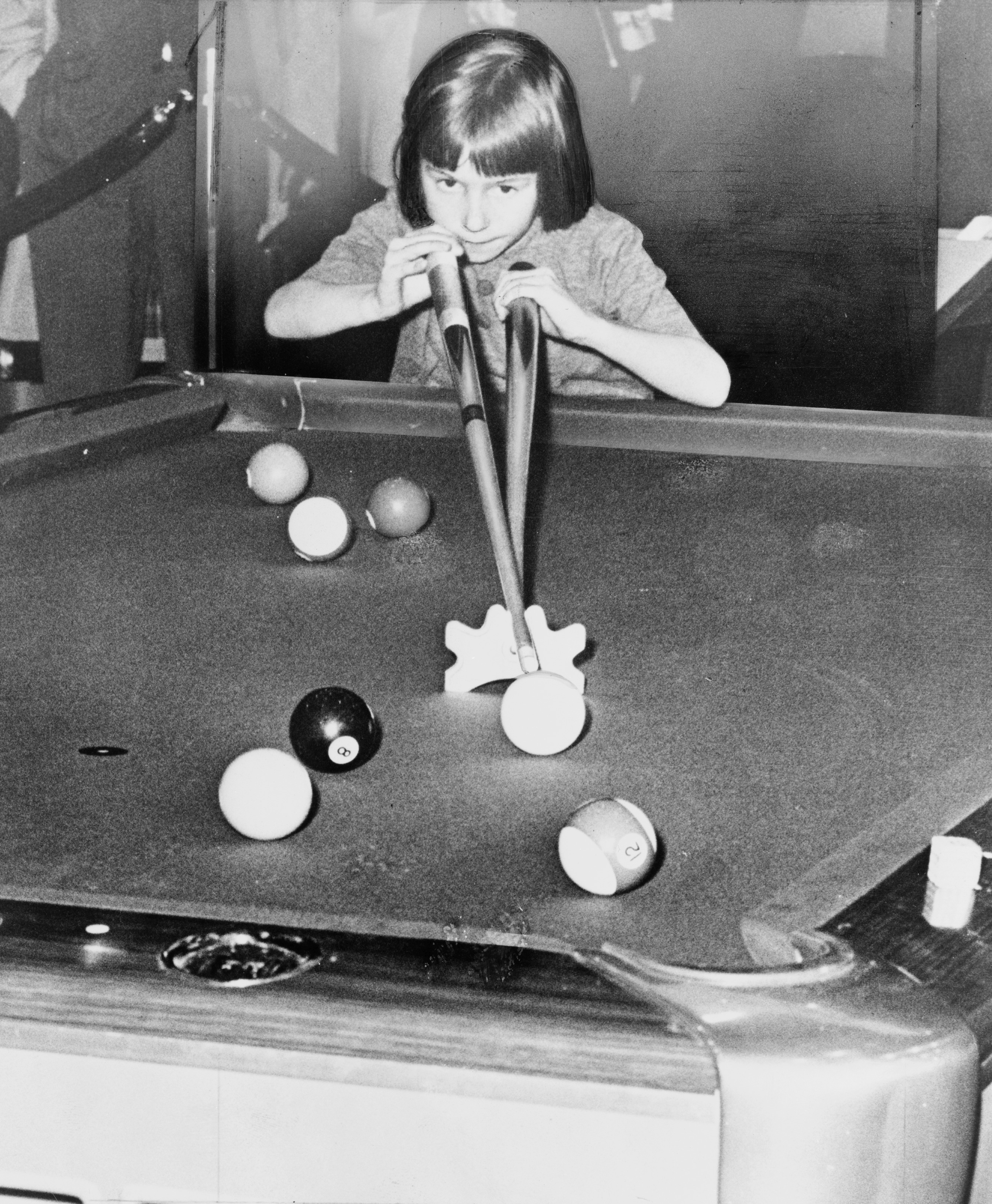 Jean Balukas lines one up in Grand Central Station / World Telegram & Sun photo by John Bottega.